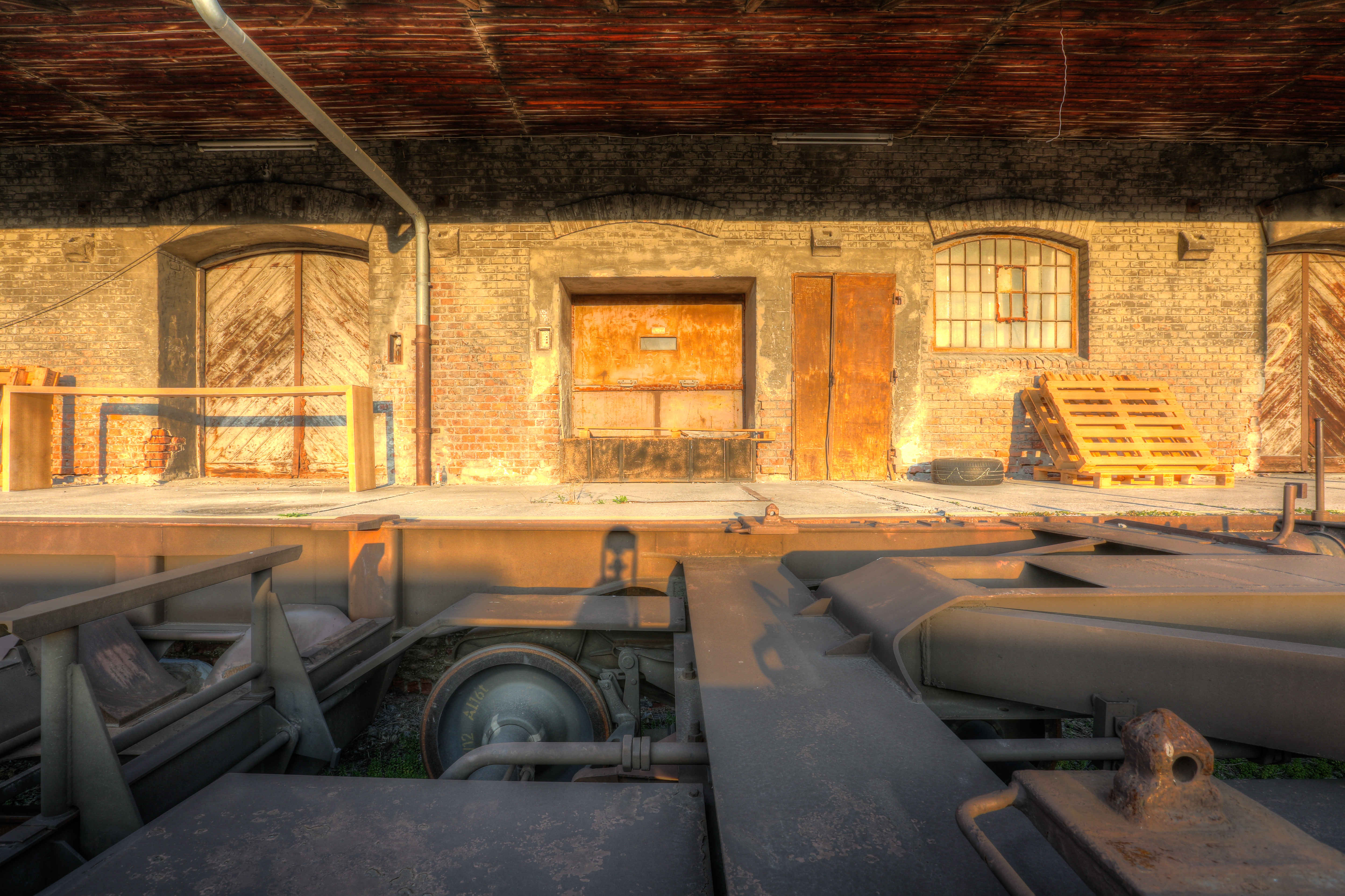 The Northwest Railway Station in Brigittenau, the XX. district of Vienna / Austria / EU. Evening, lit by the last rays of sunshine of the day. Old warehouse about 100 years old in Lagerstraße 2. In the foreground a container railway wagons without fright, already in the shade. Rusty mood. Metal, rust. Wooden pallets on the right side.